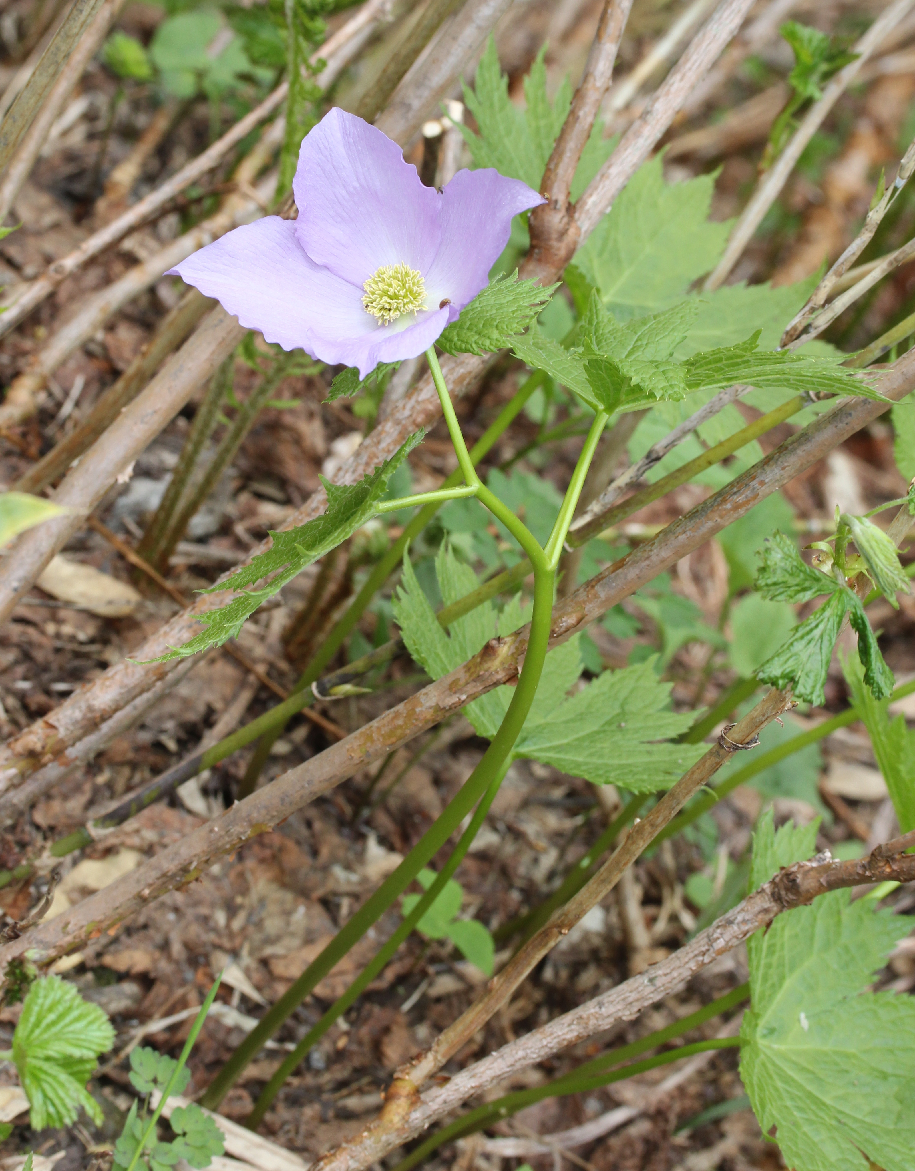 Glaucidium palmatum, in Mount Jii, Ōmachi, Nagano prefecture, Japan.